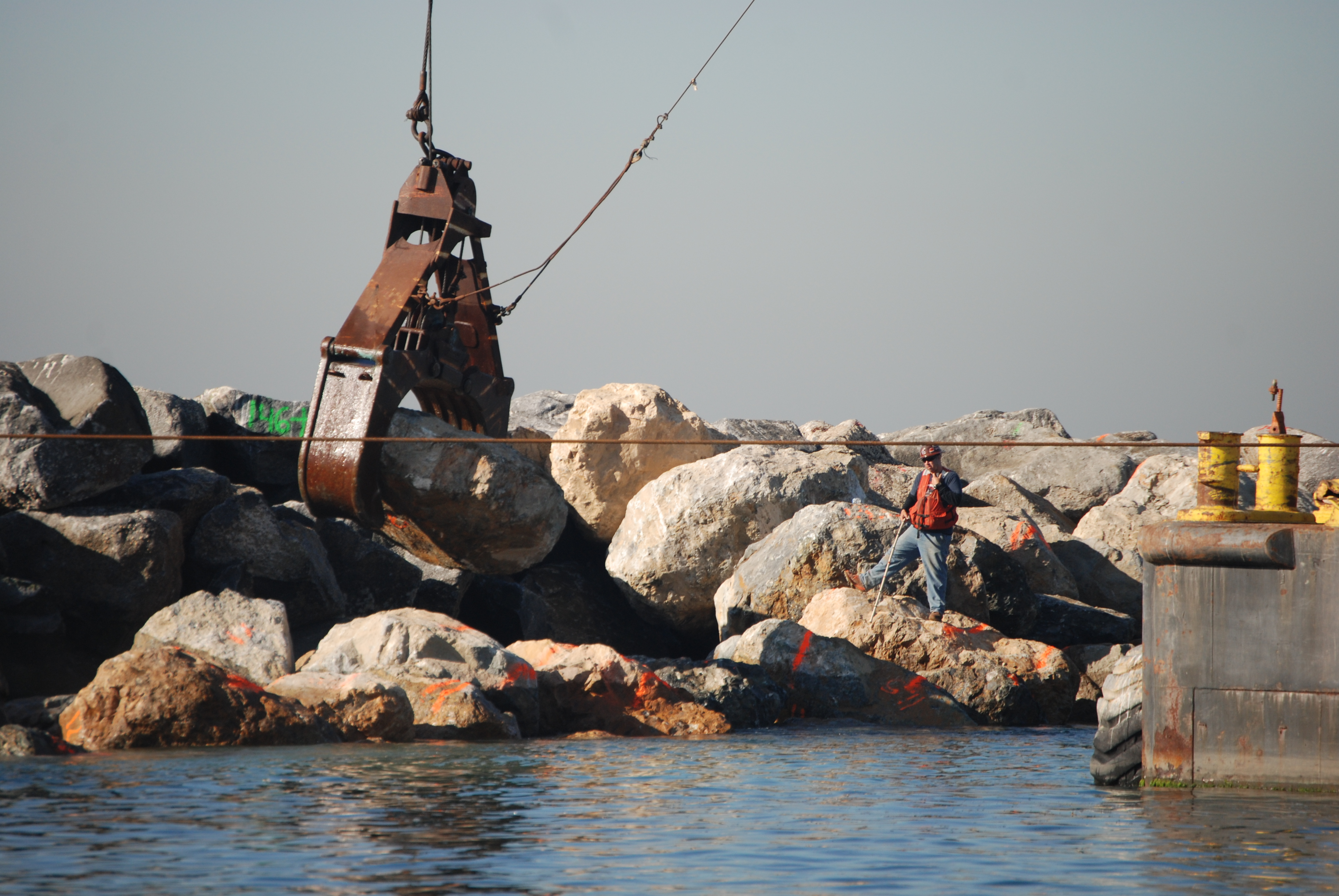 A spotter for Connolly Pacific helps the crane operator place a 10-ton rock along the Port of Long Beach Middle Breakwater. The work is being accomplished under a Corps of Engineers contract to repair damage the breakwater suffered in late August during heavy seas from Hurricane Marie.